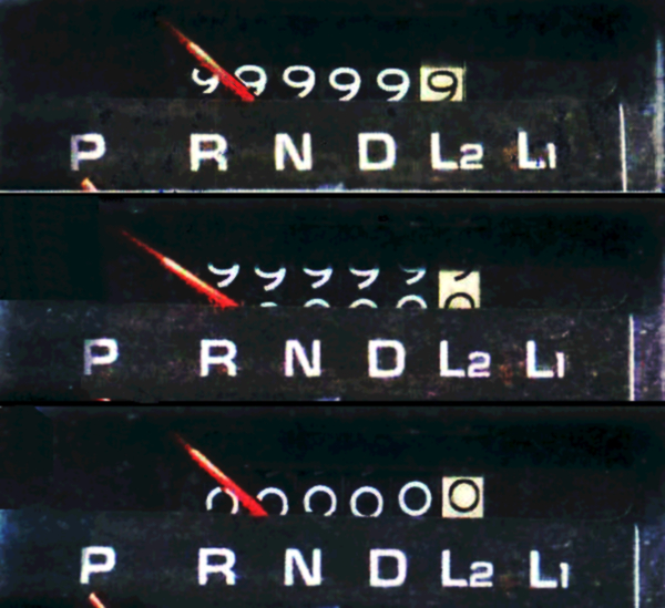 After 99,999.9 miles the odometer in my 1976 Nova rolls back to all zeroes. Everything old is new again! If you're wondering why the transmission indicator is in park it's because I'd drive a short distance, put it in park and take a picture. I did this a few times until it had rolled all the way over to zero. This image is a composite of three pictures I took that day.